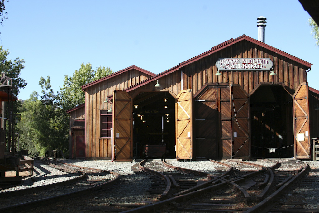 Poway Midland Railroad 'station' and train shed. in San Diego County, California.